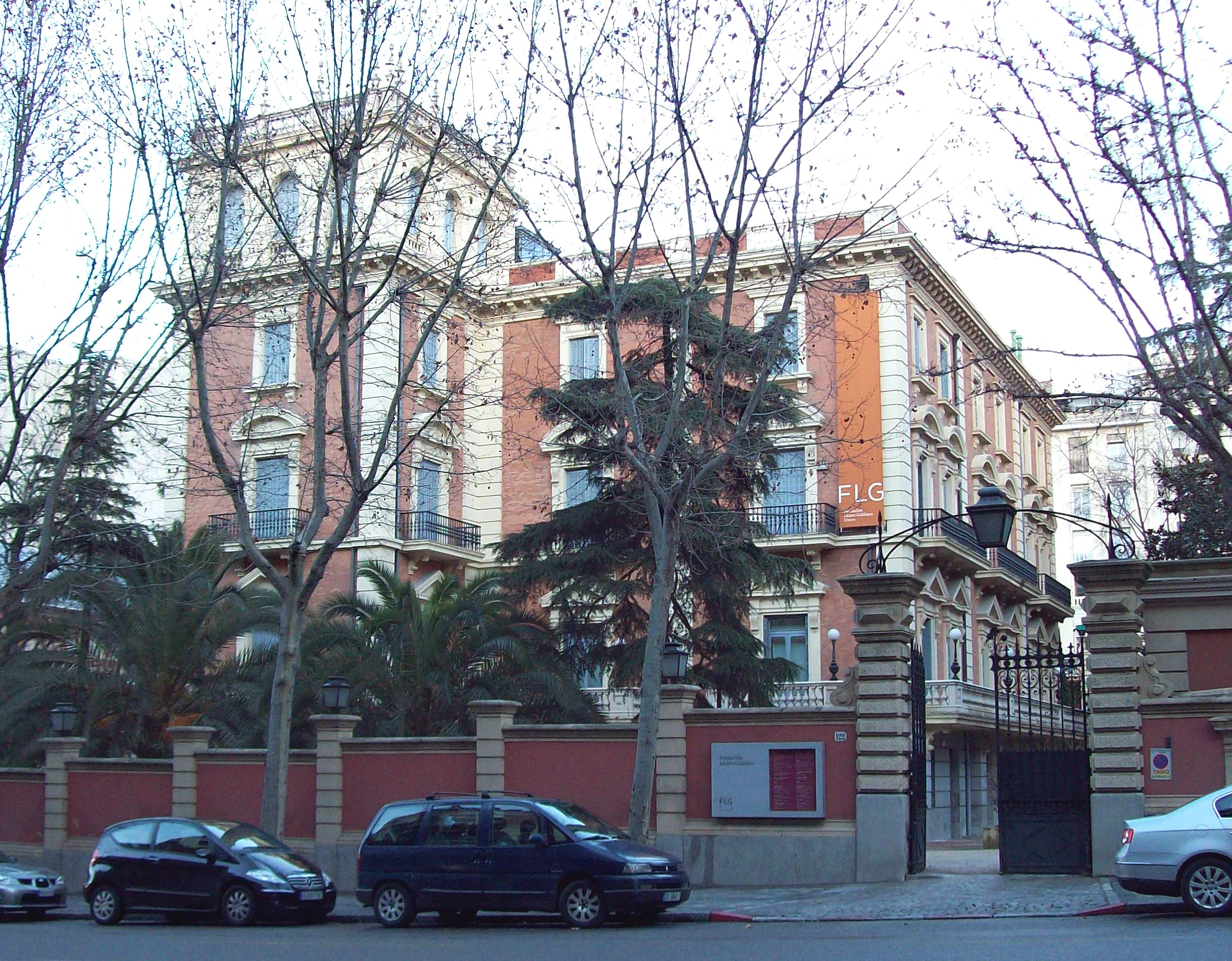 Lázaro Galdiano Museum, at 122 Calle de Serrano (street, Salamanca district) in Madrid (Spain). Building was made in 1909 as a Palace–House for José Lázaro Galdiano (1862–1947), and inaugurated as a museum in 1951.